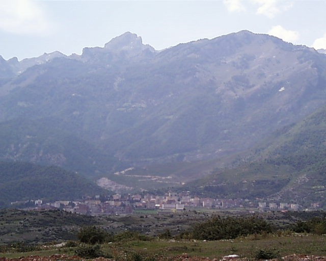 The Town of Bajram Curri, with the Hekurave Massif rising steadily in the background on a typical hazy day.